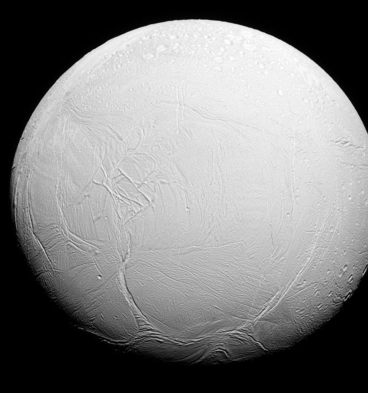 PIA18340: A Tale of Two Hemispheres - Enceladus - Moon of Saturn - July 27, 2015 Enceladus is a world divided. To the north, the terrain is covered in impact craters, much like other icy moons. But to the south, the record of impact cratering is much more sparse, and instead the land is covered in fractures, ropy or hummocky terrain and long, linear features. Lit terrain seen here is on the leading side of Enceladus. North on Enceladus is up. The image was taken in visible green light with the Cassini spacecraft narrow-angle camera on July 27, 2015. The view was obtained at a distance of approximately 70,000 miles (112,000 kilometers) from Enceladus and at a Sun-Enceladus-spacecraft, or phase, angle of 25 degrees. Image scale is 0.4 miles (0.7 kilometers) per pixel. The Cassini mission is a cooperative project of NASA, ESA (the European Space Agency) and the Italian Space Agency. The Jet Propulsion Laboratory, a division of the California Institute of Technology in Pasadena, manages the mission for NASA's Science Mission Directorate, Washington. The Cassini orbiter and its two onboard cameras were designed, developed and assembled at JPL. The imaging operations center is based at the Space Science Institute in Boulder, Colorado. For more information about the Cassini-Huygens mission visit and The Cassini imaging team homepage is at